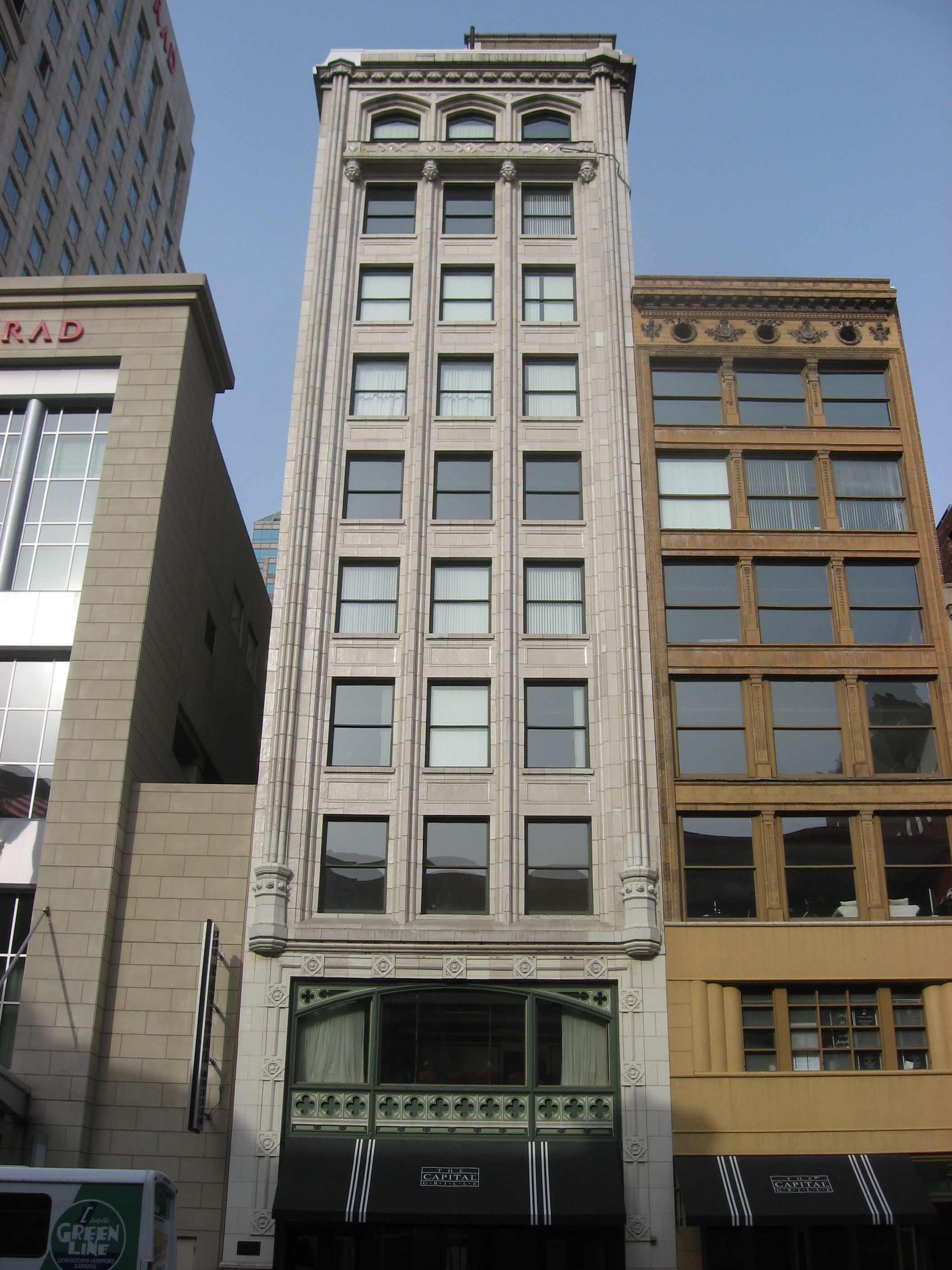 Front of the former Indianapolis News Building (now a restaurant), located at 30 W. Washington Street in downtown Indianapolis, Indiana, United States. Built in 1909, it is listed on the National Register of Historic Places, and it is a part of the Register-listed Washington Street-Monument Circle Historic District.